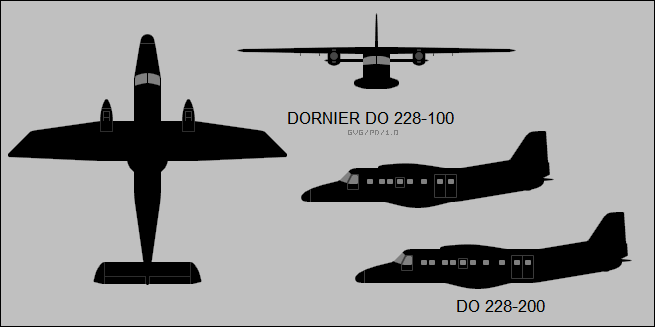 3-view silhouettes of Dornier Do 228